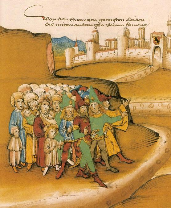 First arrival of gypsies outside the city of Berne